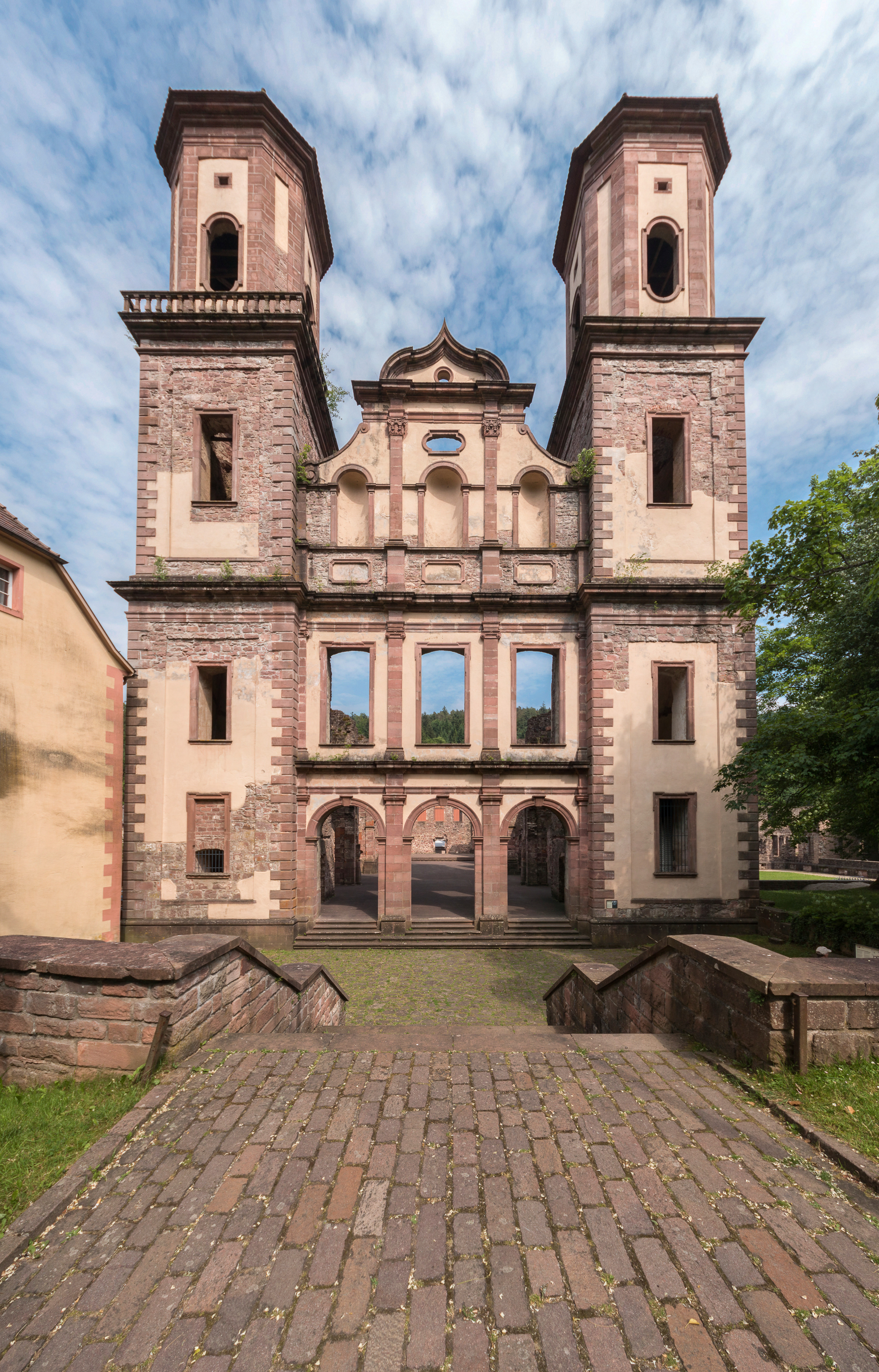 Ruins of Frauenalb Abbey